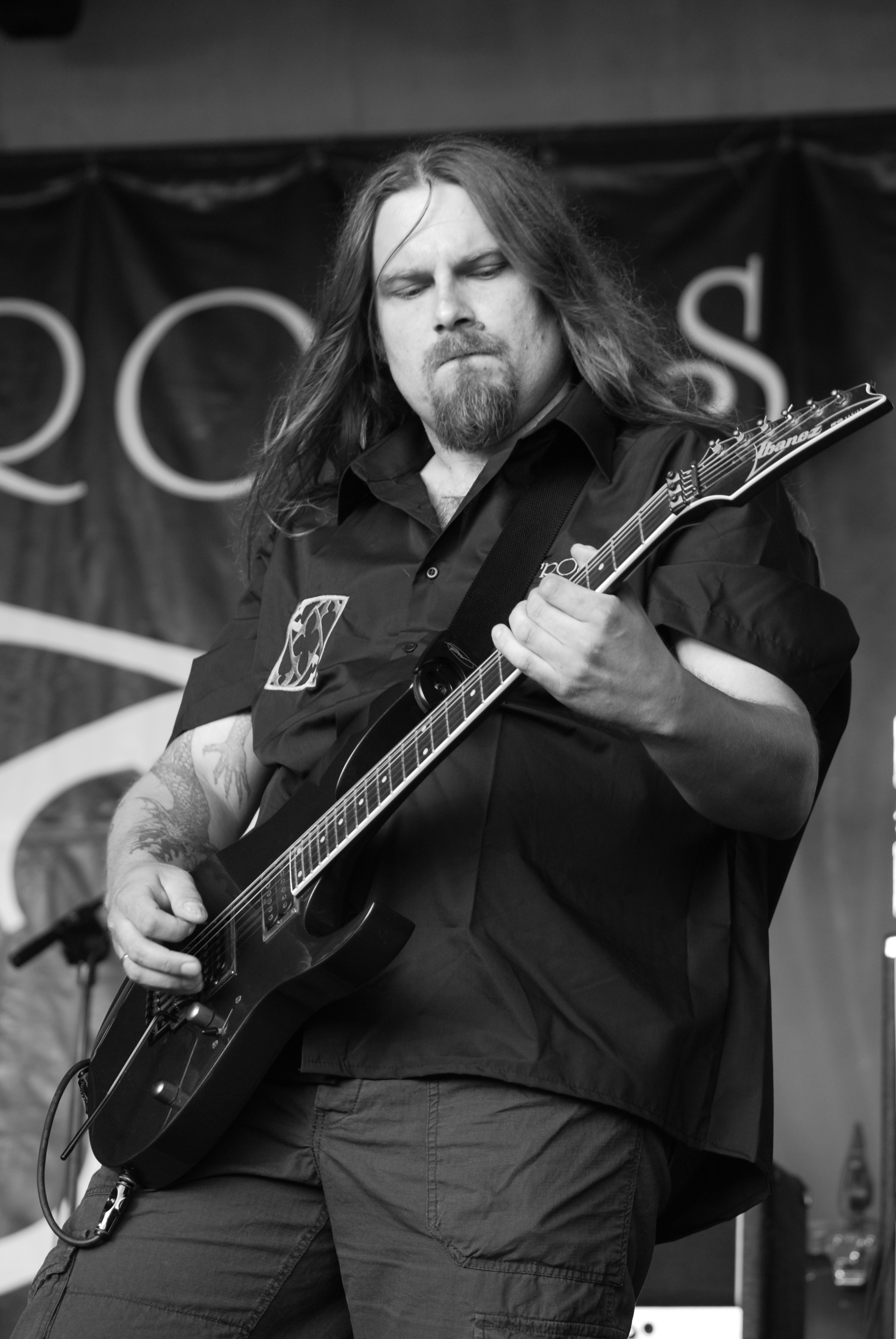 This photo was made in cooperation with CASTLE PARTY PRODUCTIONS in Bolków (webpage)